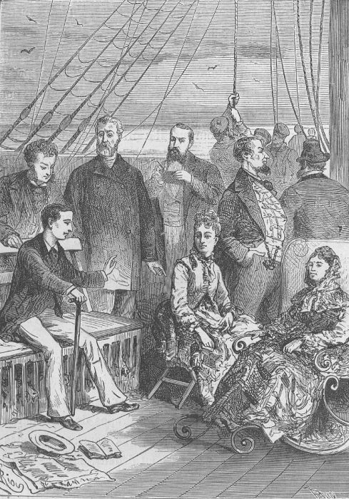 The passengers on The Chancellor. An ilustration from the novel "The Survivors of the Chancellor: Diary of J. R. Kazallon, Passenger" by Jules Verne drawn by Édouard Riou.